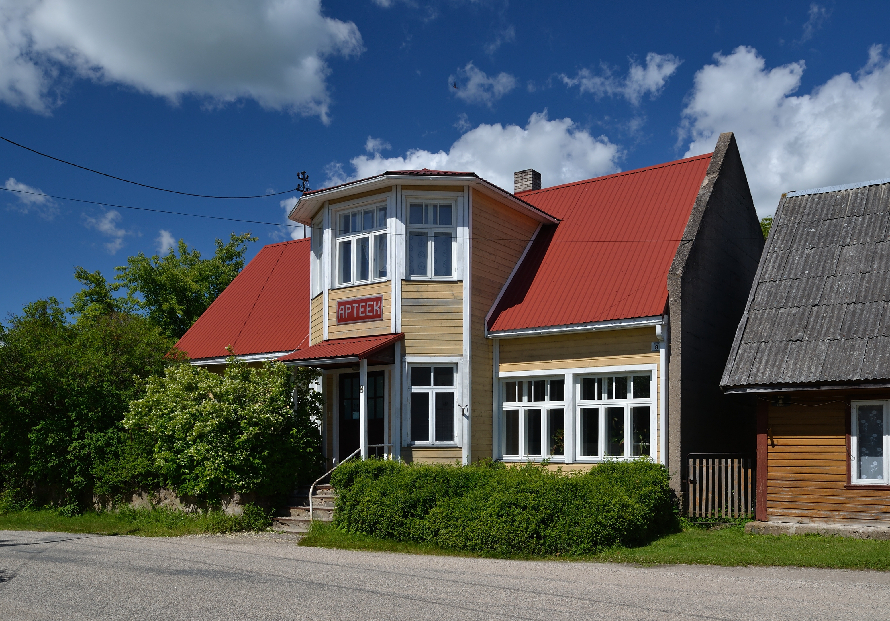 Pharmacy-house in Puka Kesk 8